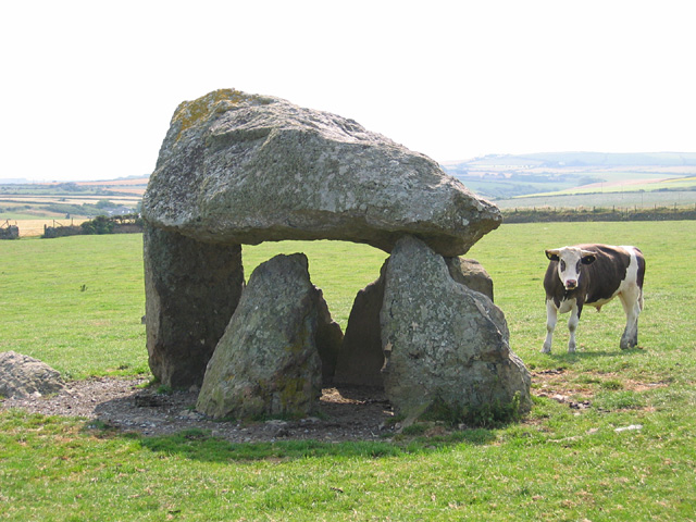 Burial Chamber near Abercastle, Wales (along the Pembrokeshire Coast Path)